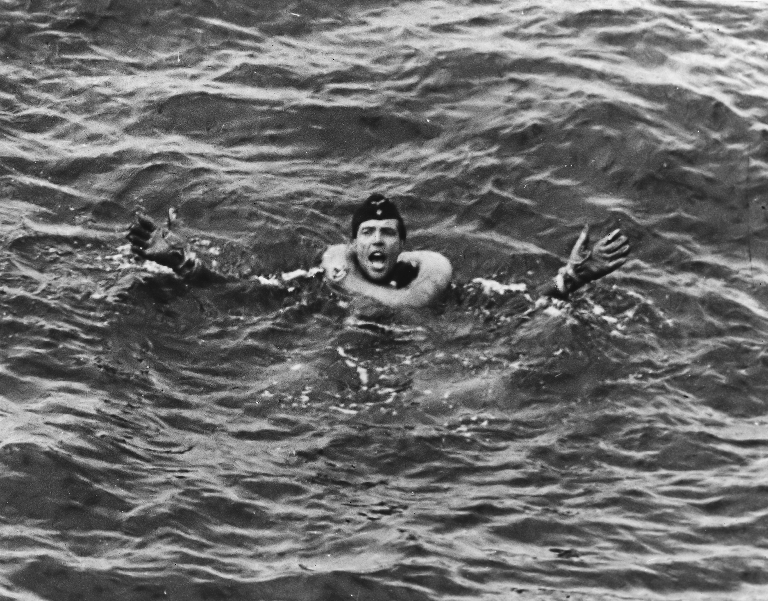 Obersteurmann Helmut Klotzch yells for help after his submarine, U-175, is sunk in the Atlantic by U.S. Coast Guard Cutter Spencer 17 April 1943. The sub was just about to attack an Allied convoy ( Official Caption: "NAZI SEEKS AID: One of the Germans to escape, when a Coast Guard convoy cutter sank their submarine in the Atlantic, this Nazi lifts hands and voice in a plea for help." Date: 17 April 1943 Photo No.: 1567 Photographer: Jack January Description: This sailor was identified as Obersteurmann Helmut Klotzch. Some of the U-175's crew later joked that while still aboard the U-boat Klotzch ordered the men not to call out for assistance once they entered the water. Klotzch was rescued by Spencer. [1]